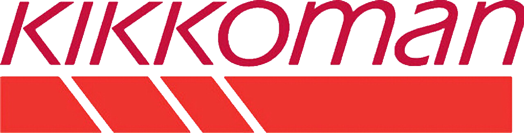 Old logo of KIKKOMAN